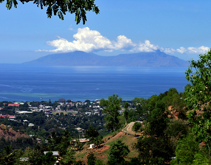 Dili and Atauro Island/East Timor